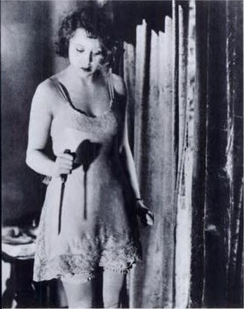 Anny Ondra in the British crime film Blackmail (1929). See also film still. No copyright notice.